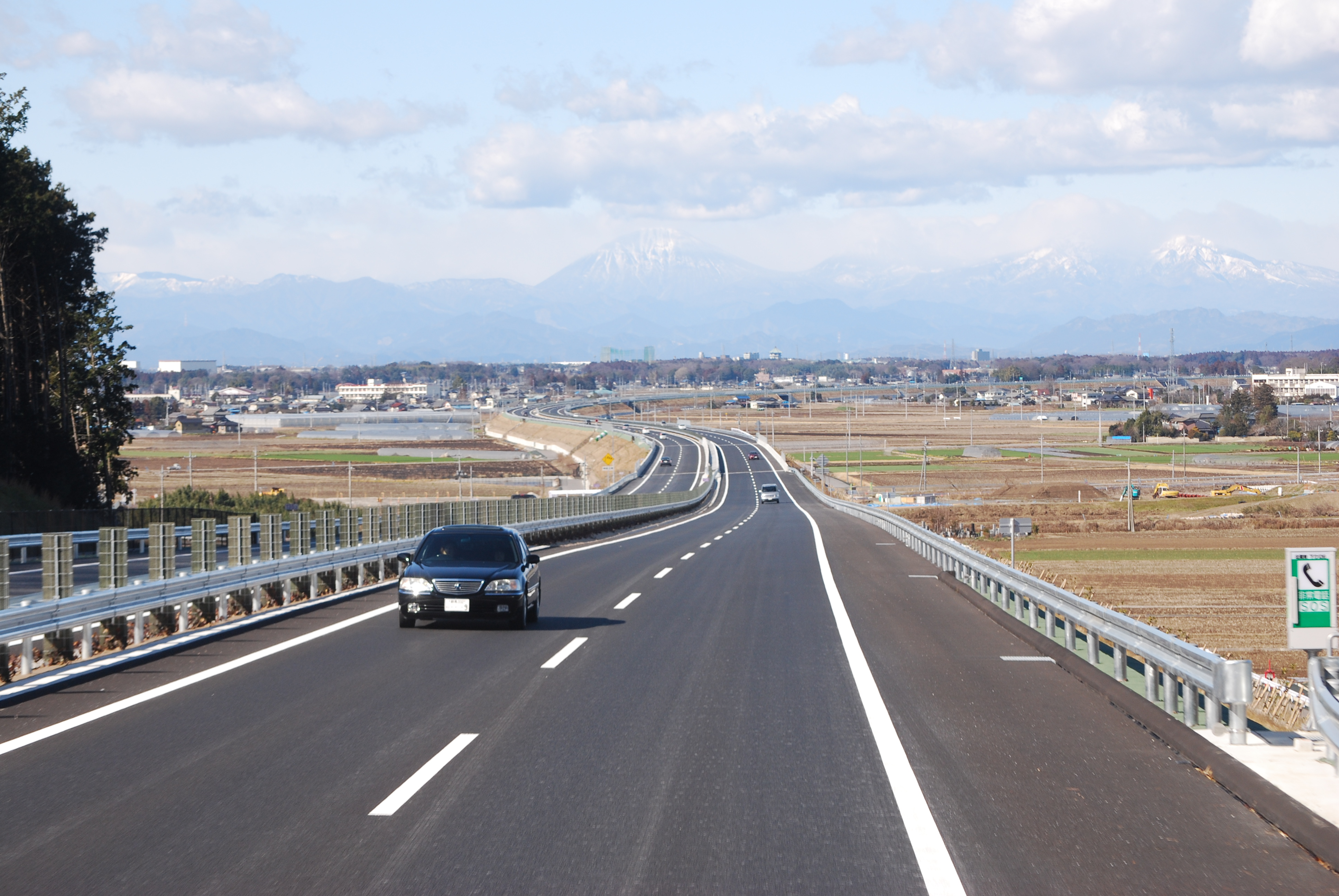 Kita-Kanto-Expressway and Nikko Sanzan,Ninomiya-town,Tochigi,Japan